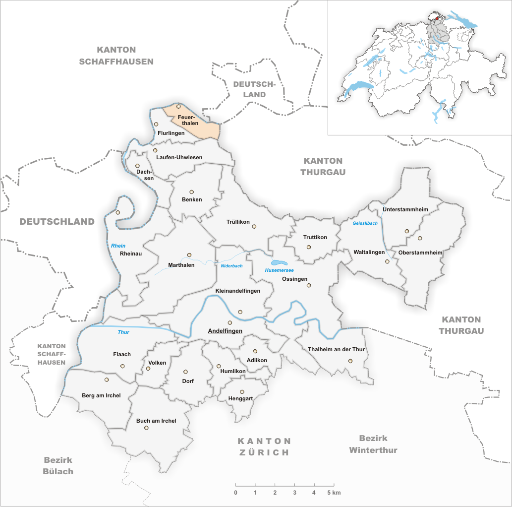 Municipality Feuerthalen